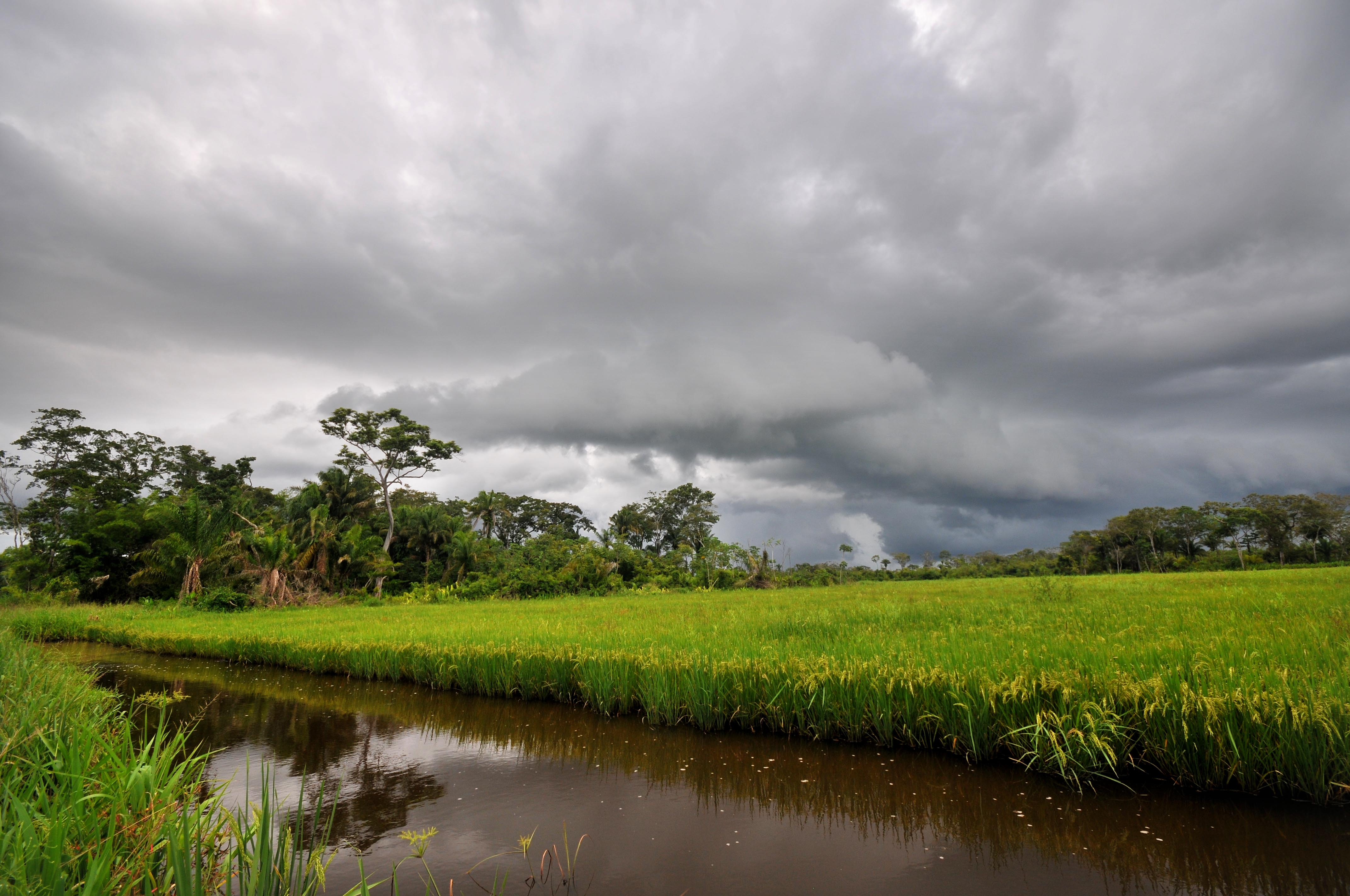 Pic by Neil Palmer (CIAT). A storm approaches a biofortified rice demonstration field in Guarayos, Santa Cruz, Bolivia. Please credit accordingly.